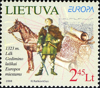 Europa 2008. The Letter. Date of issue: 3rd May 2008. Designers: H. Ratkevicius Paper: chalky Printing process: offset Perforation: comb 14 Size of a stamp: 34,50 x 30 mm. Size of a Miniature Sheet: 99 x 180 mm. Miniature sheet composition: 10 (2 x 5) stamps. Printing run: 200.000 stamps or 20.000 Miniature Sheets. Michel catalogue numbers: 970-971 2.45 Lt. multicoloured. Horse, ancient letter.